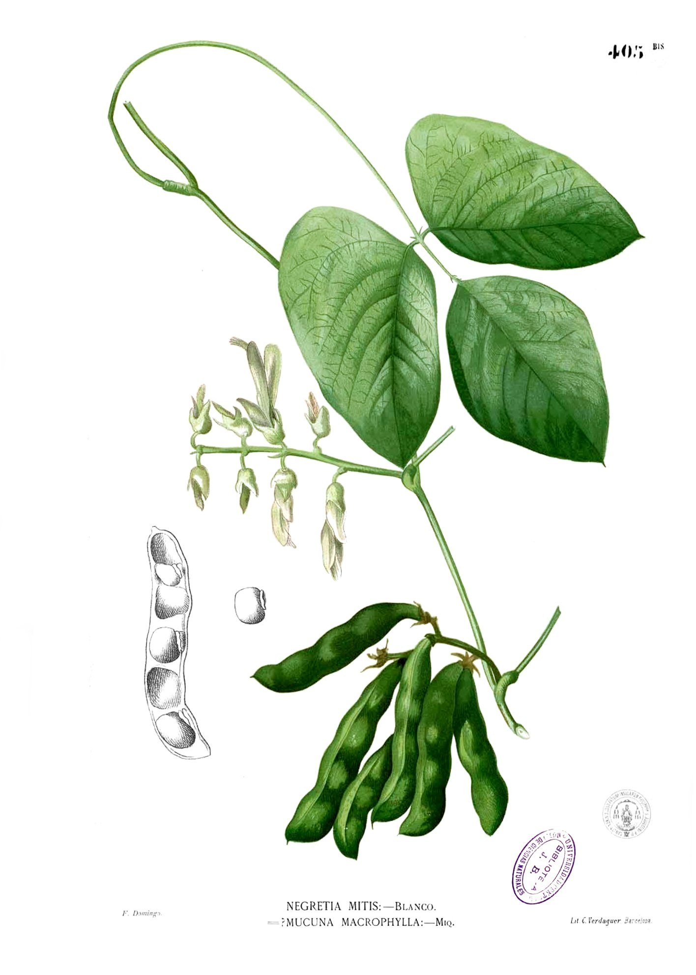 Plate from book